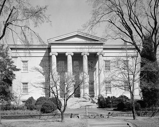 Old Governor's Mansion — in Baldwin County, Georgia. Image (1936): HABS—Historic American Buildings Survey of Georgia, (cropped).